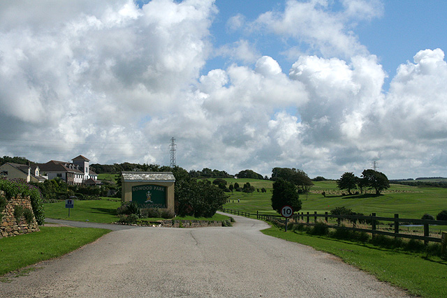 Camelford: Bowood Park Hotel and golf course at Lanteglos, open to non-residents and AA three-star listed